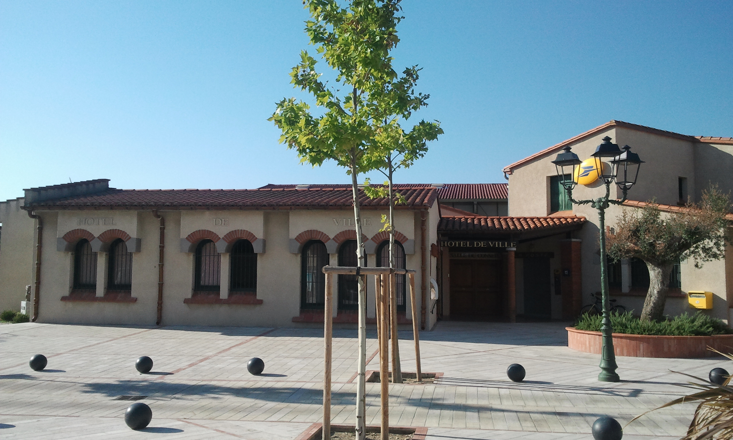 Town hall in Saint-Jean-Pla-de-Corts